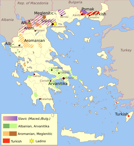 Areas with traditional presence of linguistic minorities in Greece (Arvanitika, Albanian, Aromanian, Megleno-Romanian, Macedonian Slavic, Pomak Bulgarian, Turkish, Ladino).